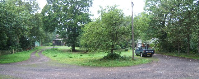 D'Abernon Chase. This location is a clearing in Prince's Coverts, the extensive forest near Oxshott managed by the Crown Estate. It looks like it was originally used in connection with the management of the forest. I'm not sure if this is still the case.